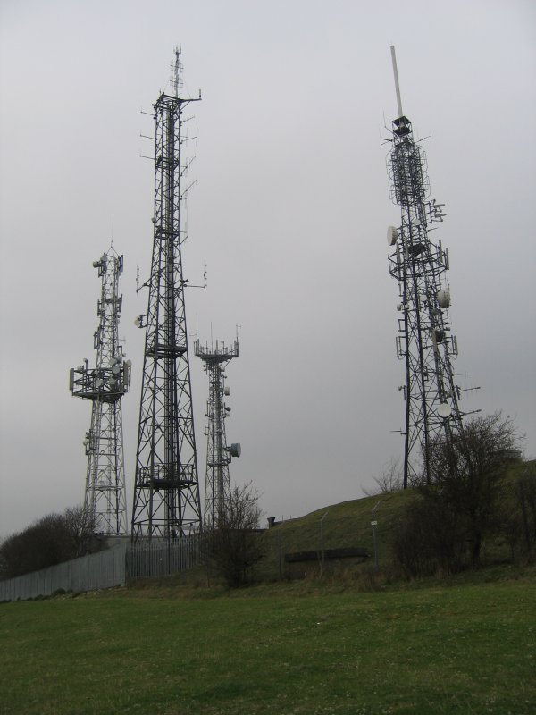 Guildford Transmitters